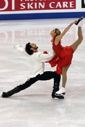 Tanith Belbin & Benjamin Agosto perform a straight-line lift (Level 4) during their free dance at the 2009 World Figure Skating Championships.